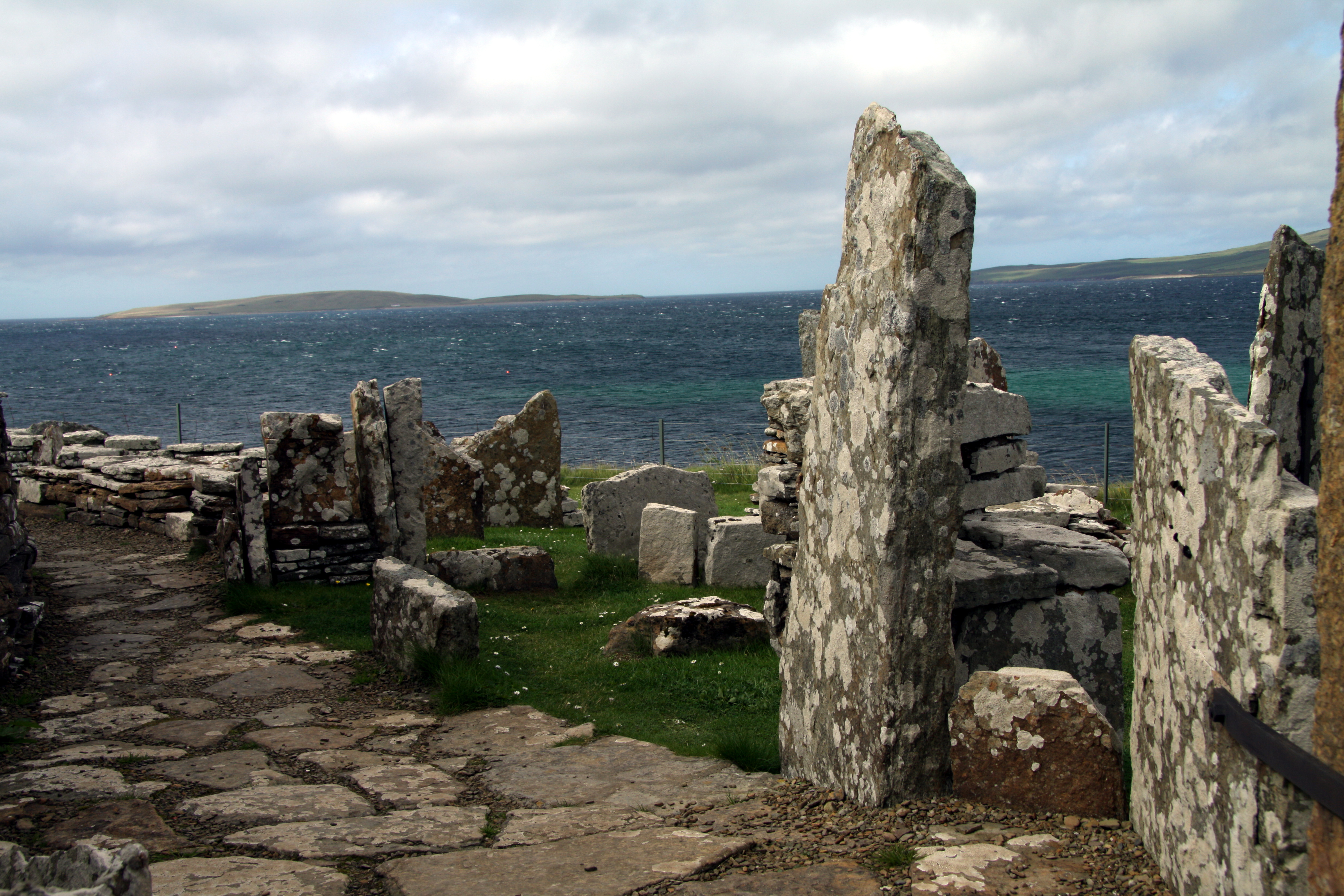 he Broch of Gurness is an Iron Age broch village on the northwest coast of Mainland Orkney in Scotland overlooking Eynhallow Sound.